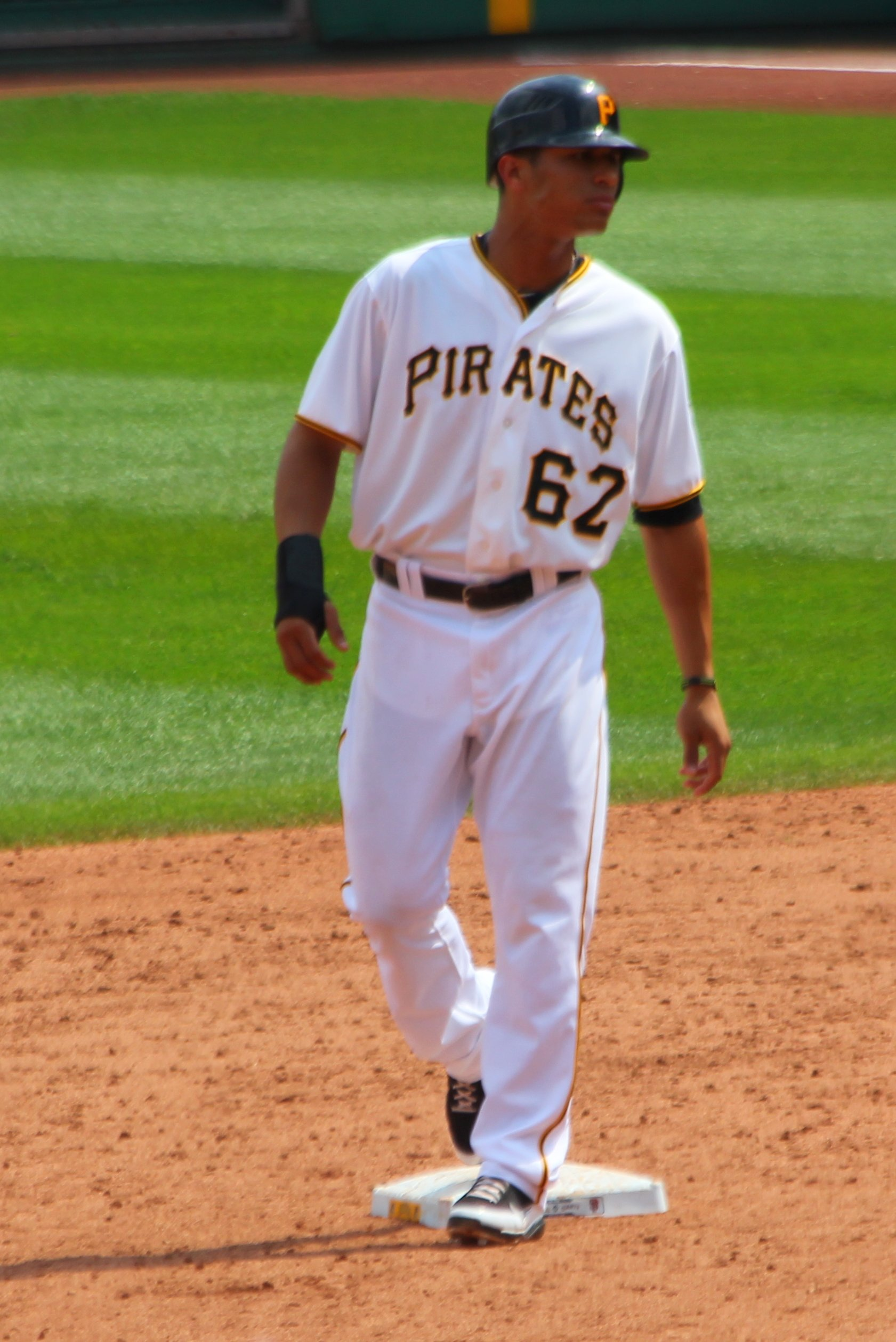 Gorkys Hernández plays in a game against the San Francisco Giants at PNC Park in Pittsburgh, Sunday, July 8, 2012.